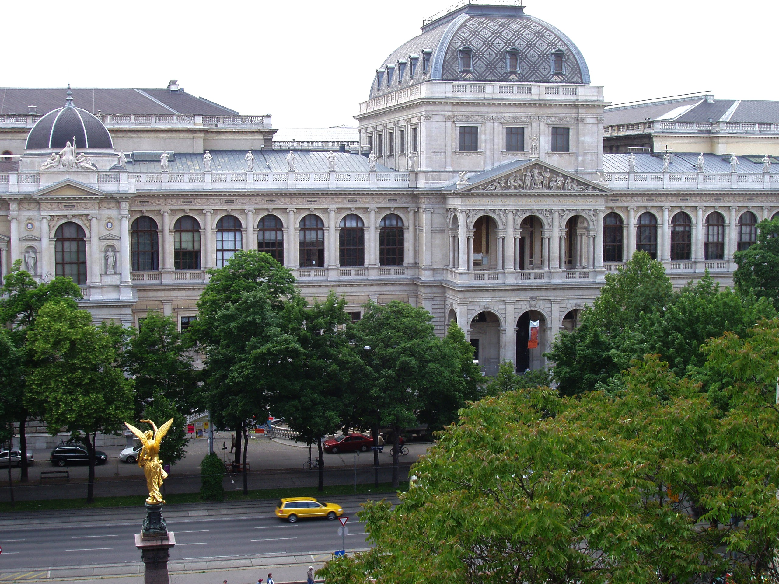 View of the University of Vienna main building, taken from a window of Ludwig van Beethoven's apartment in a four-storey house on the Mölkerbastei owned by Baron Johann Pasqualati, and rented to Beethoven from autumn 1804 to spring 1815. The University was not there during Beethoven's time; instead he saw out to the Vienna Woods. Photograph taken by me, May 2005.